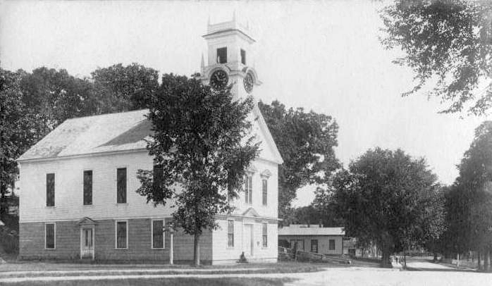 Brookline Community Church, Brookline, New Hampshire. It was built in 1838.